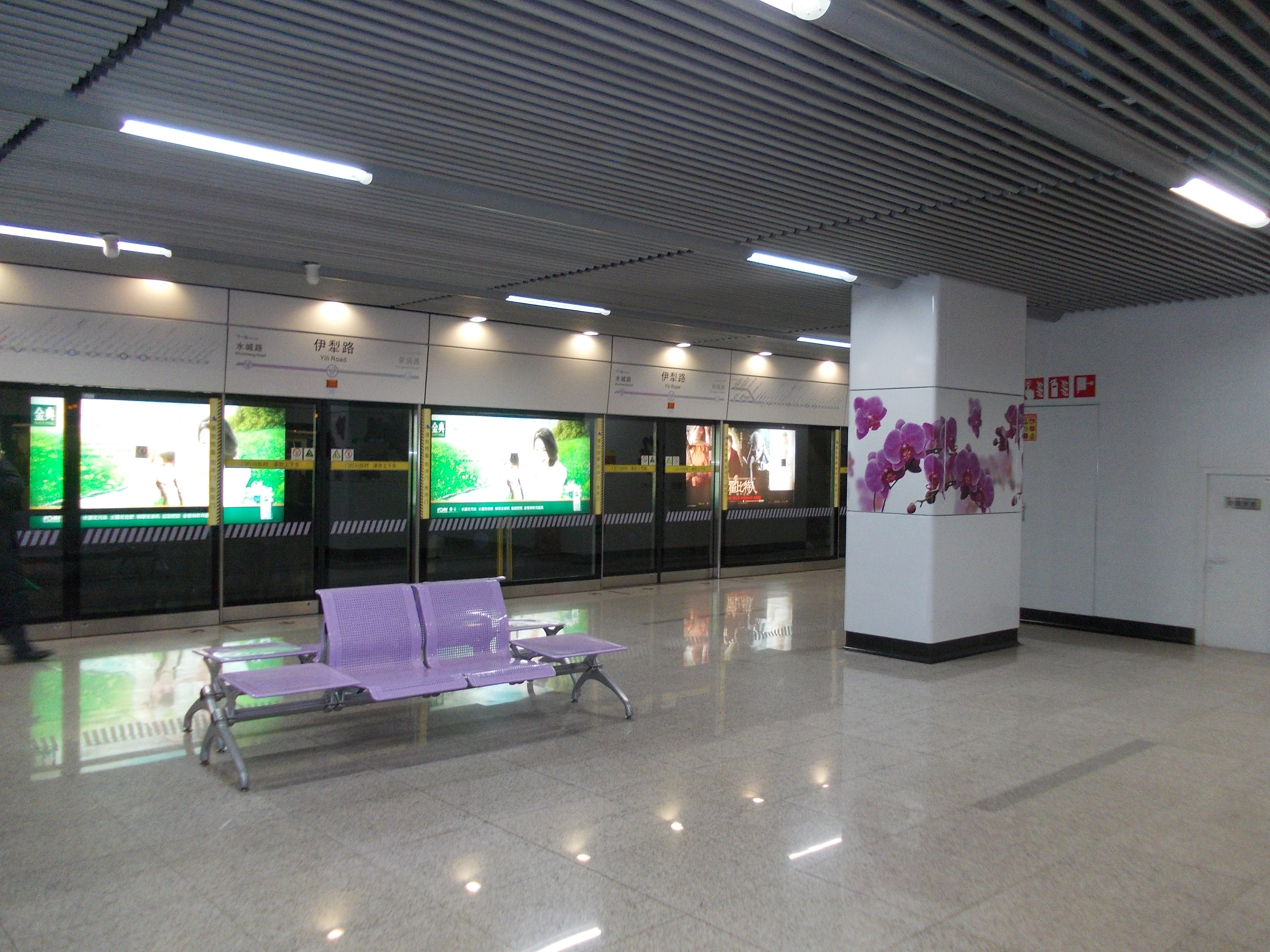 Shanghai Metro - Line 10 - Yili Road